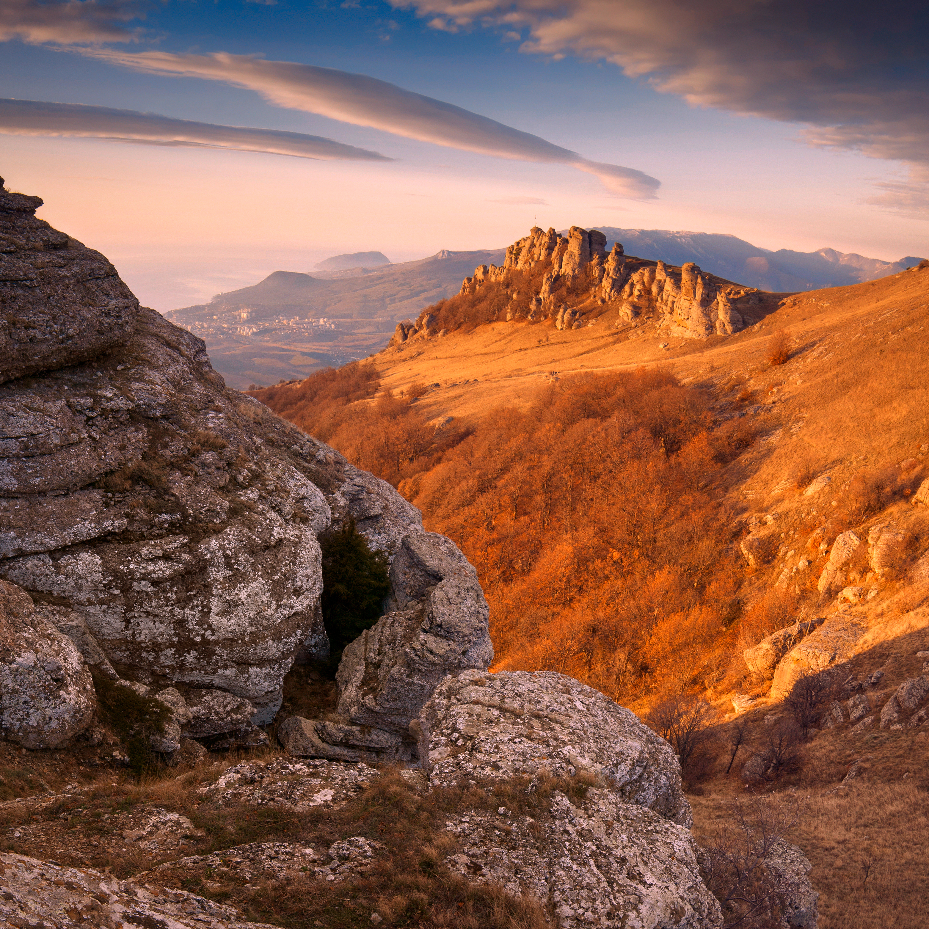 Demirci Rocks. Demirci Yayla Sanctuary, Autonomous Republic of Crimea